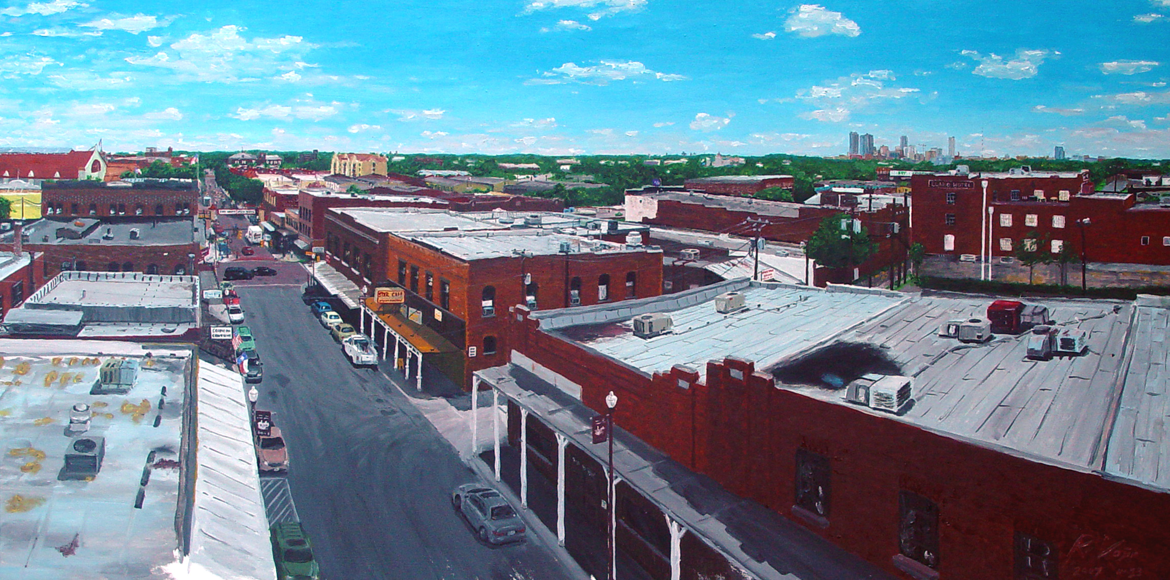 Ft Worth Stockyards and Skyline by Ryan Vojir It includes: The Coliseum/Rodeo, Exchange Ave. (with ceremonial twice-daily Cattle Drive of Longhorns by Cowboys) Main St., Tarrant County Courthouse, the Bass (Wells Fargo) and (D.R. Horton) Towers, and few other Ft. Worth buildings in the distance on the far right.